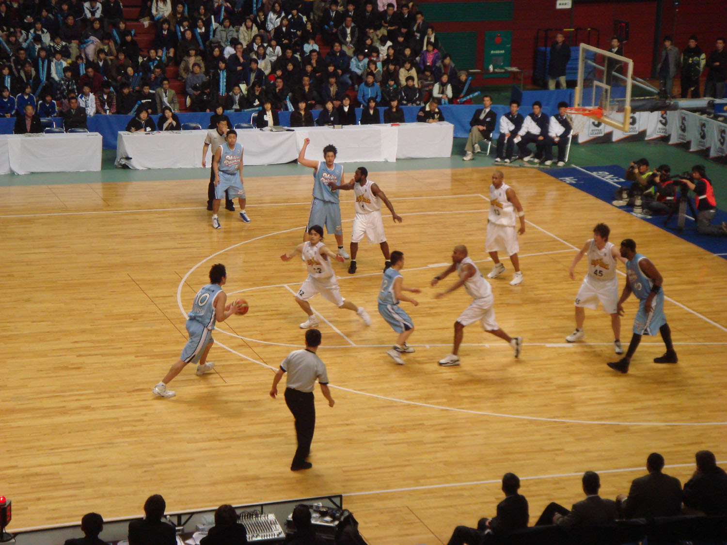 JBL super league. At the Akita municipal gymnasium